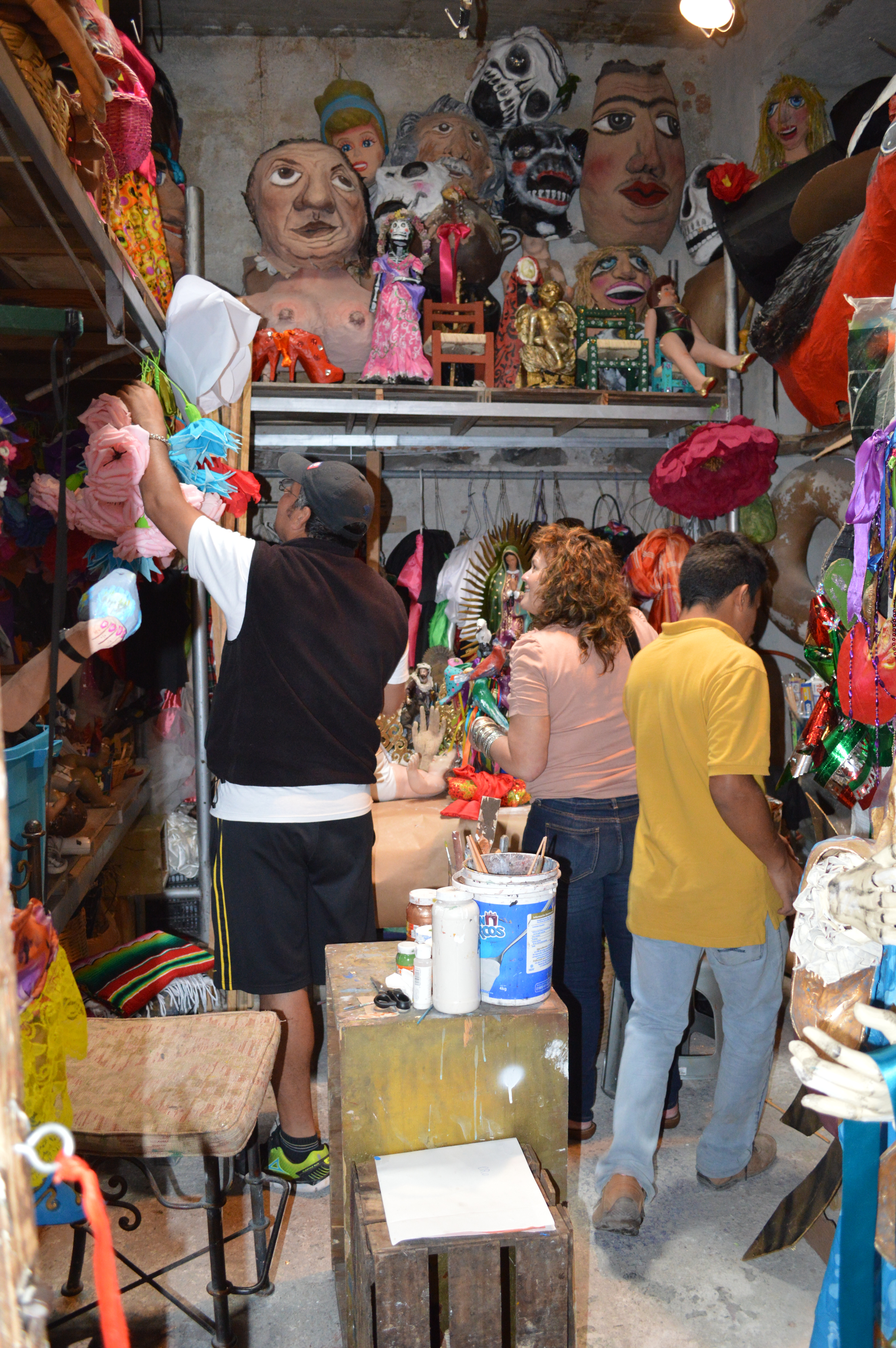 Home workshop of Hermes Arroyo in San Miguel Allende, Mexicio